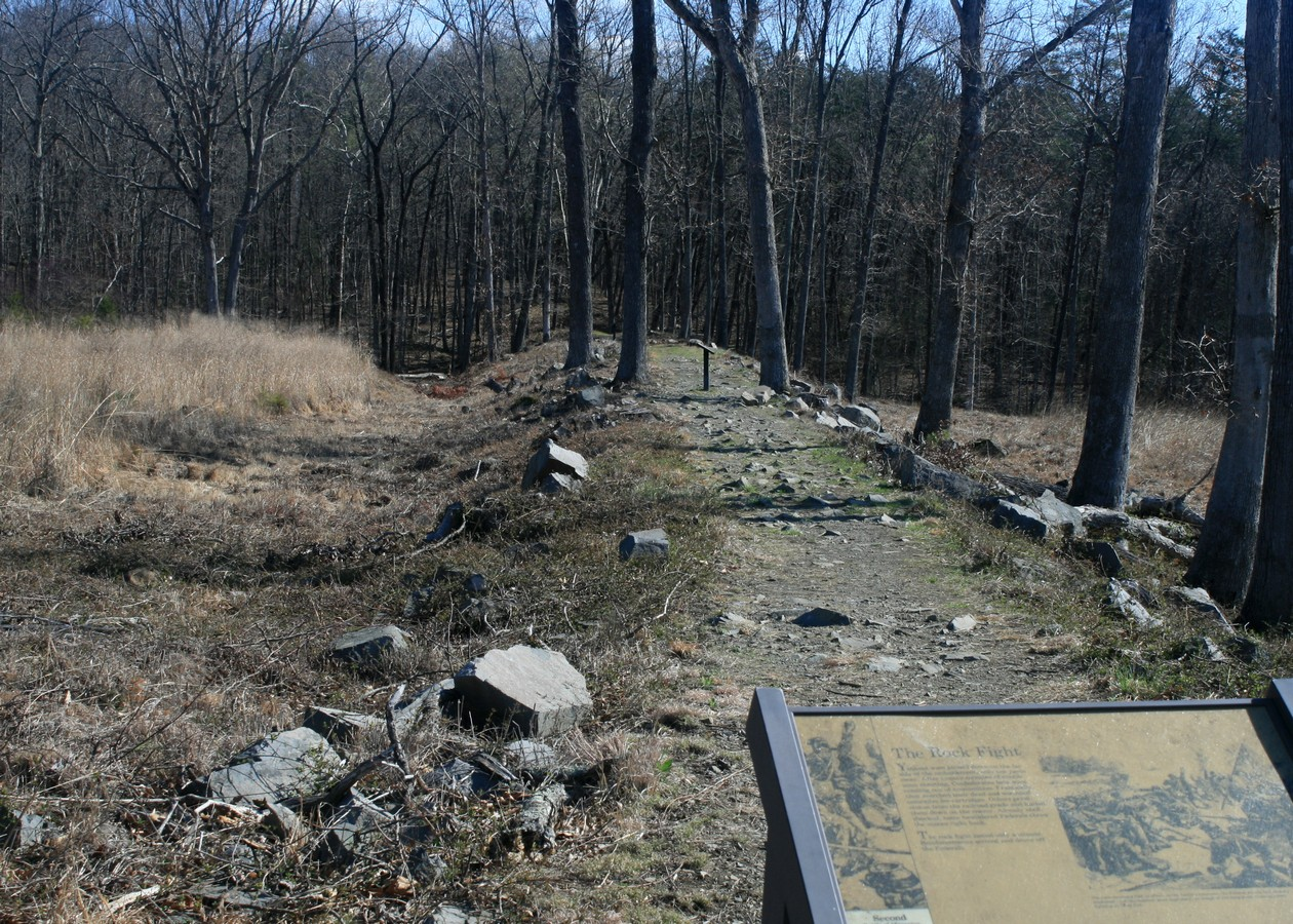 Second Manassas Battlefield, position of Stafford brigade (fasinf right).